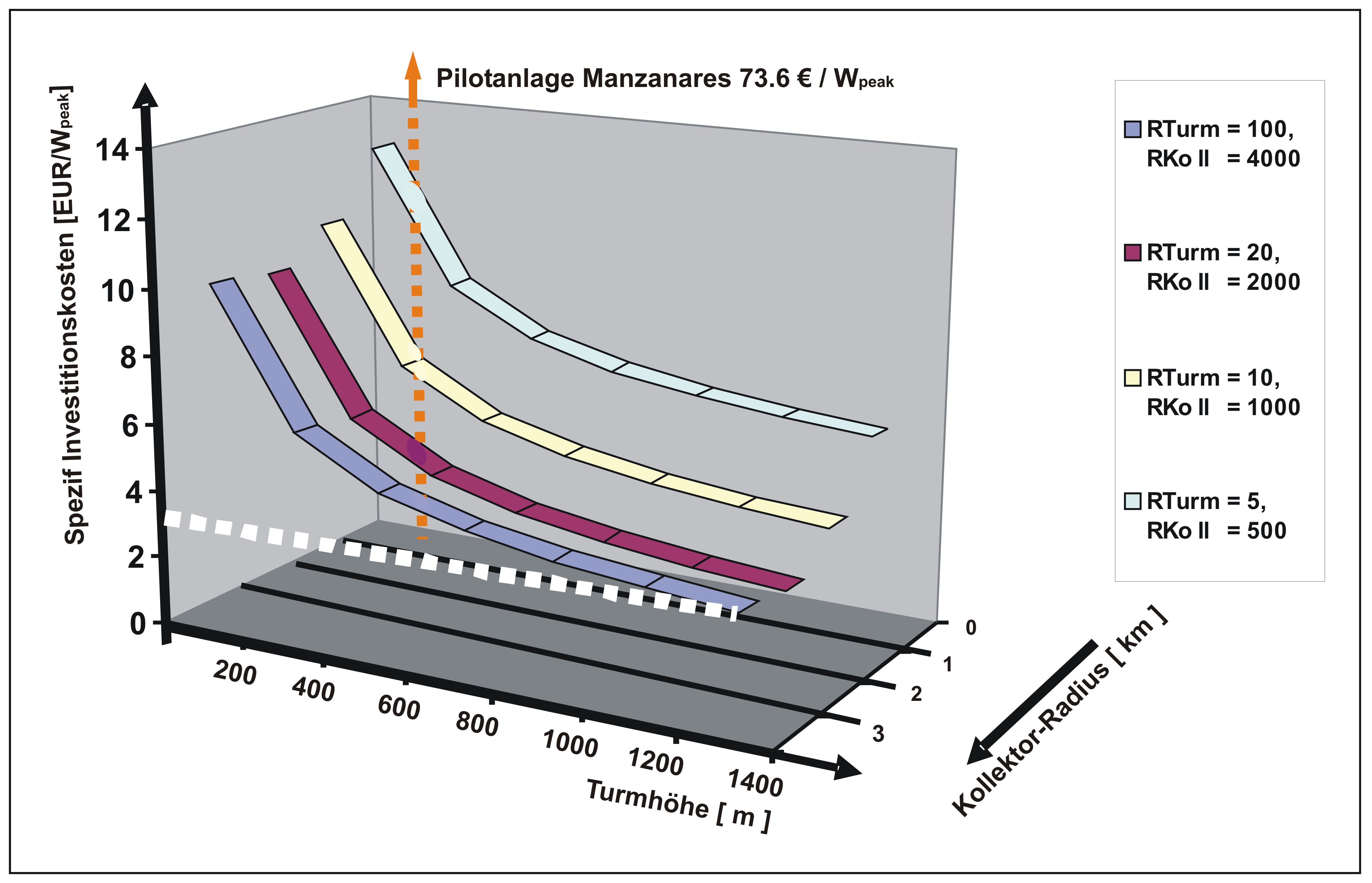 Specific Investment Costs of Solar Updraft Power Plants